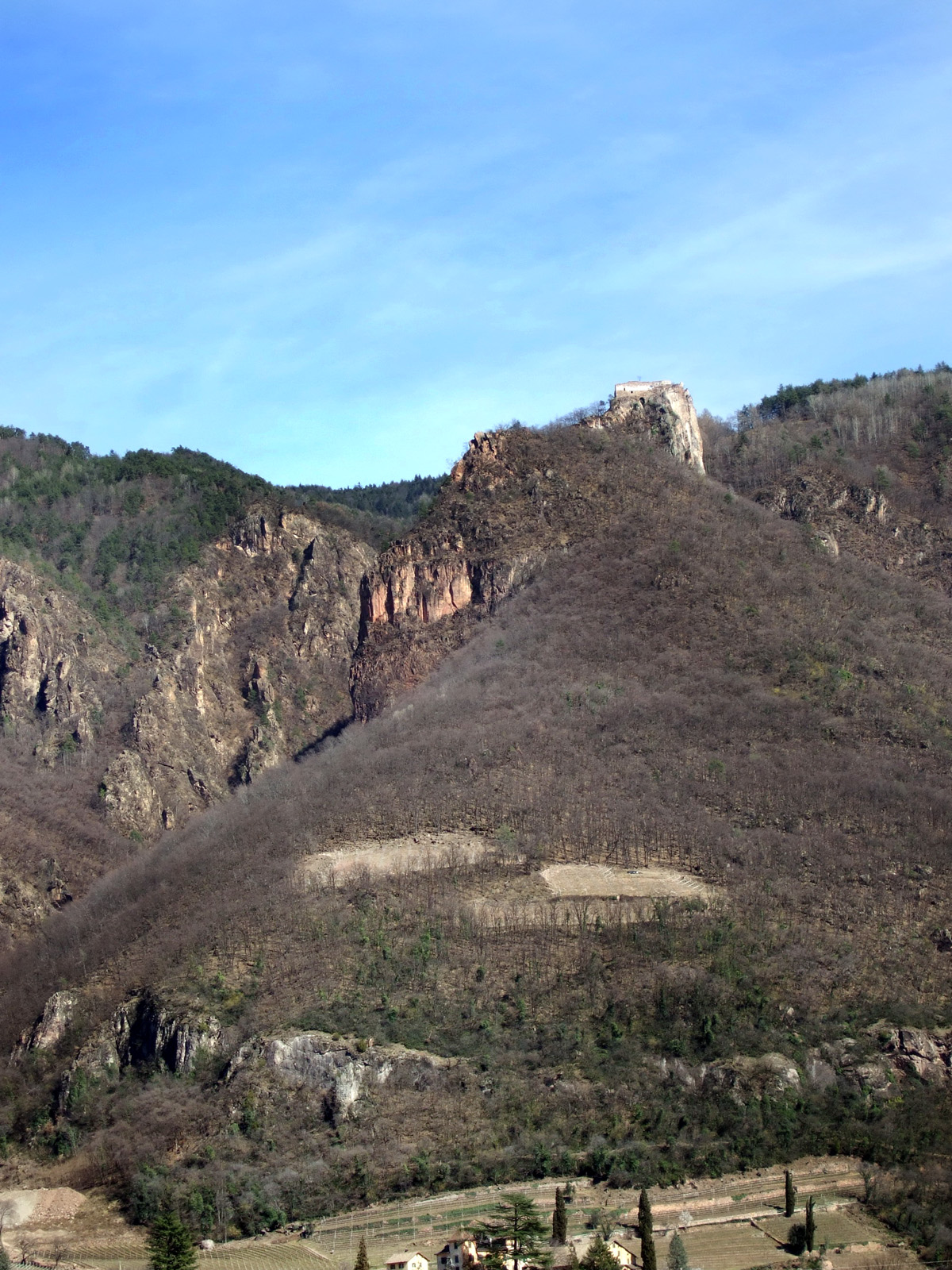 Ruins of Castle Greifenstein in Jenesien (South Tyrol)